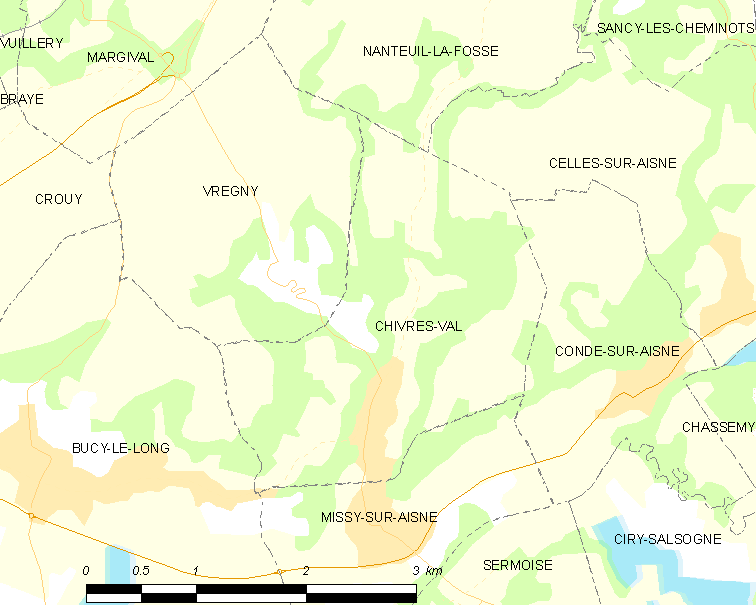 Map of French commune: Chivres-Val Map commune FR insee code 02190.png